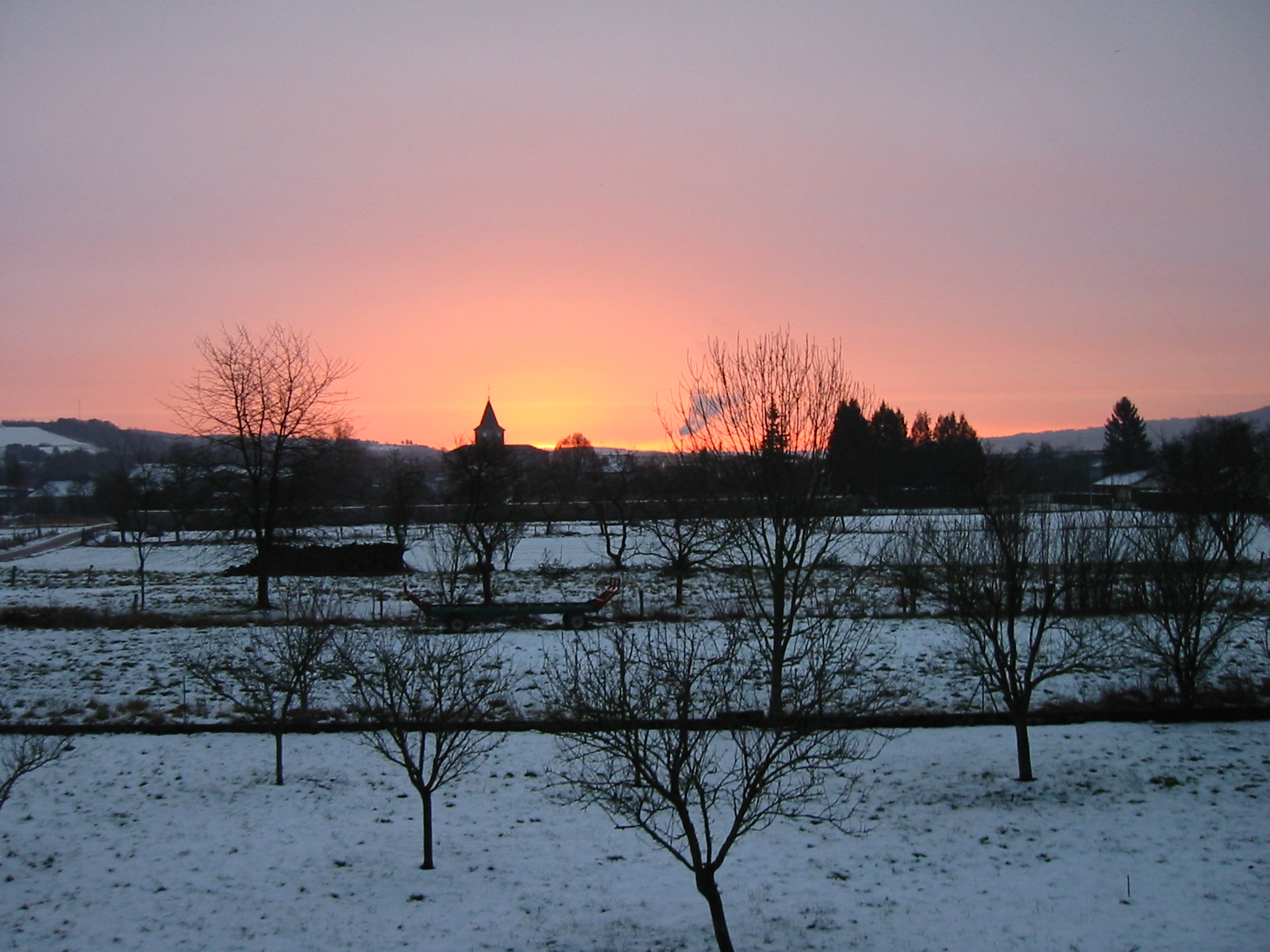 Spire of the church of Tronville-en-Barrois at dawn, winter 2004.